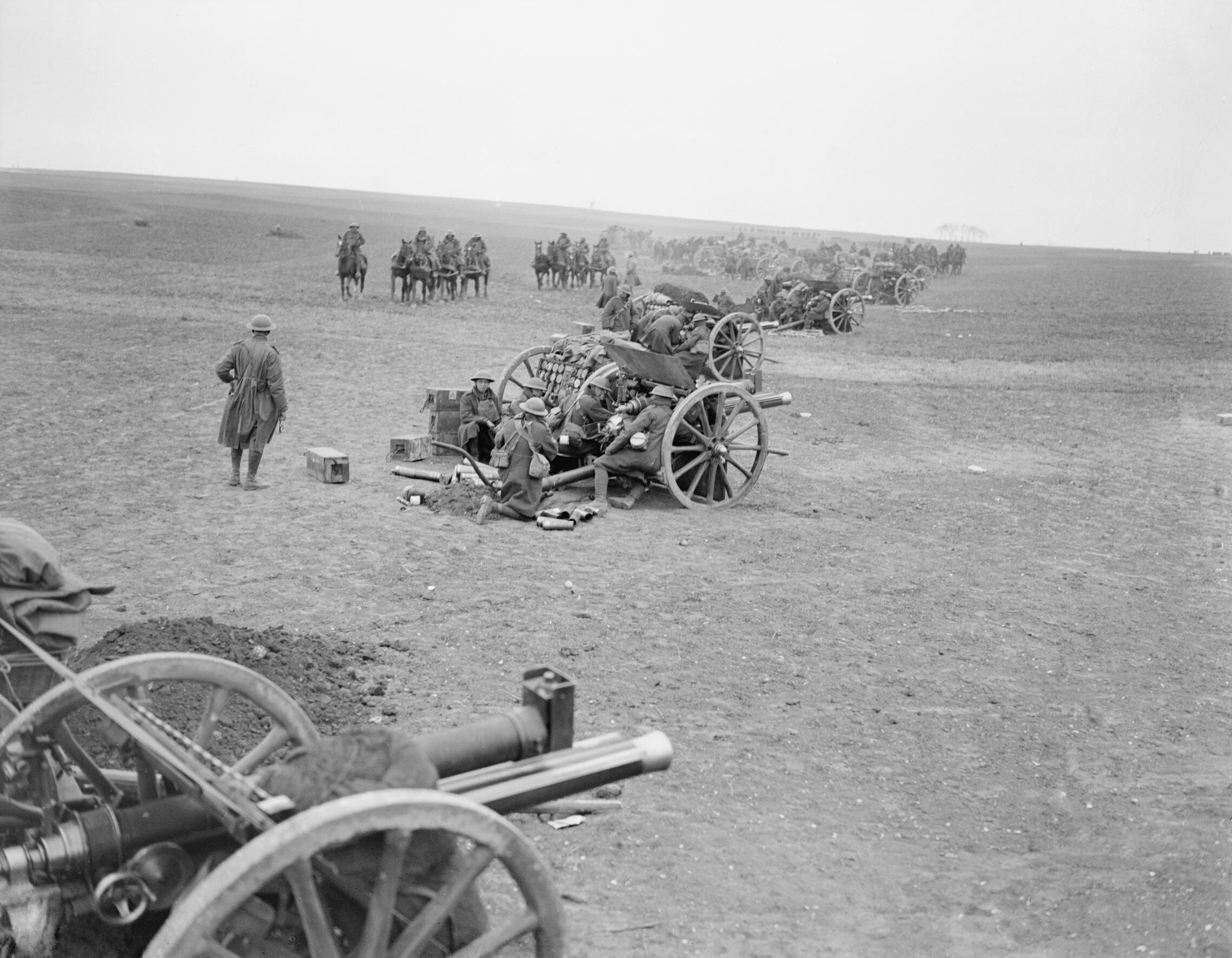 The German Spring Offensive, March-july 1918 18-pounder gun batteries of the Royal Field Artillery in action in the open during the First Battle of Arras. Albert area, 28 March 1918.